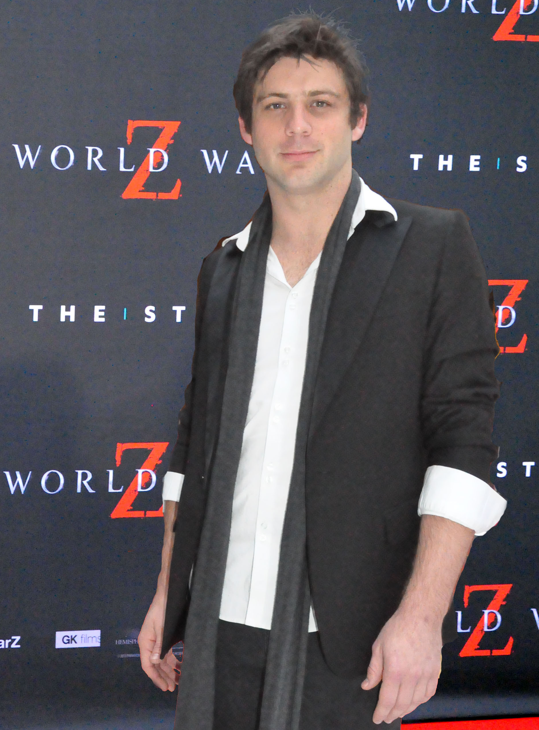 Lindsay Farris attending World War Z Australian Premiere at The Star on Sunday June 9 2013.